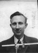 ID Badge Photo of McDaniel at Los Alamos